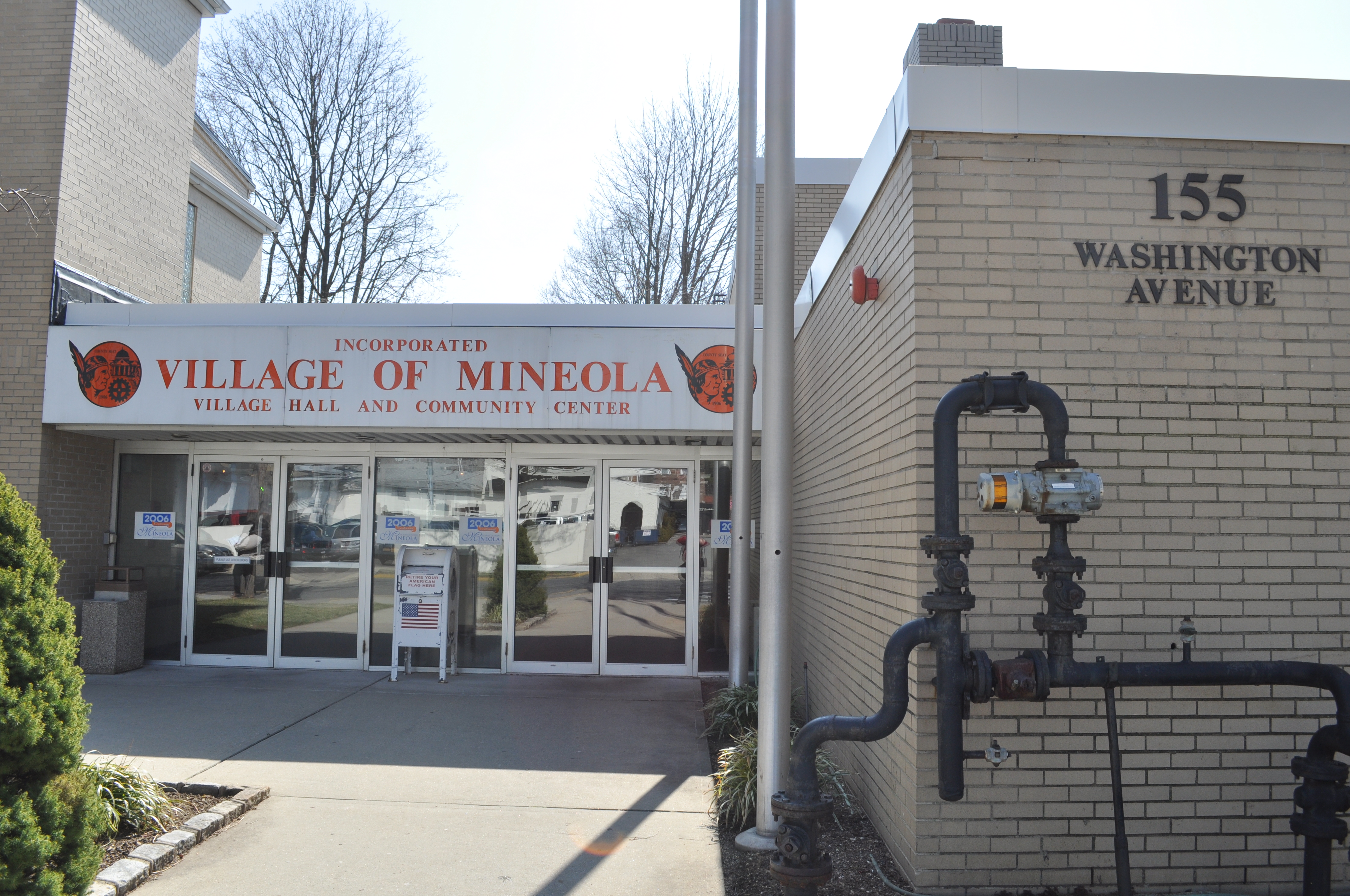 Village Hall, Mineola, Long Island, New York.